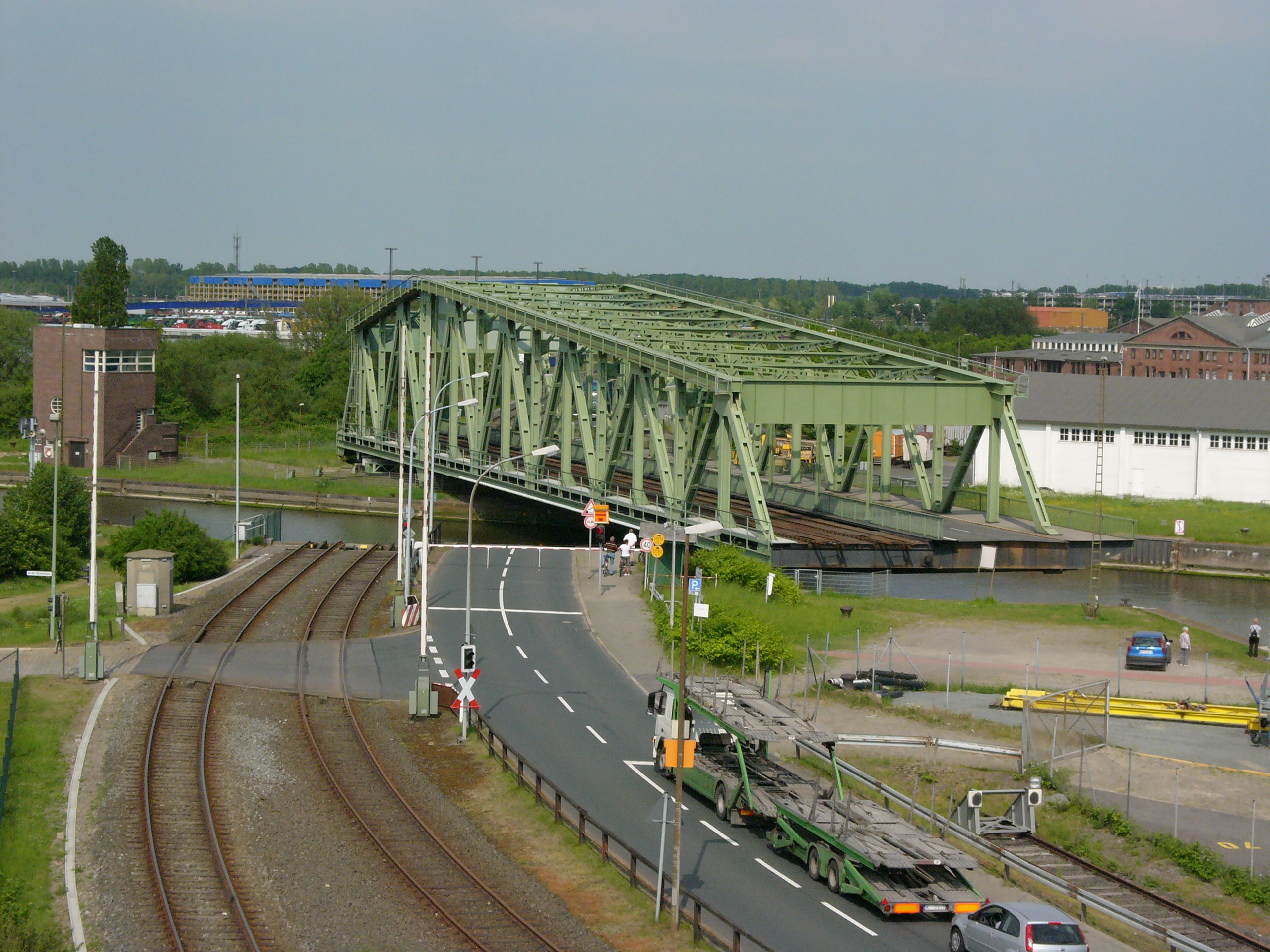 Nordschleusenbrücke (Bremerhaven, northern Germany) opening (2)